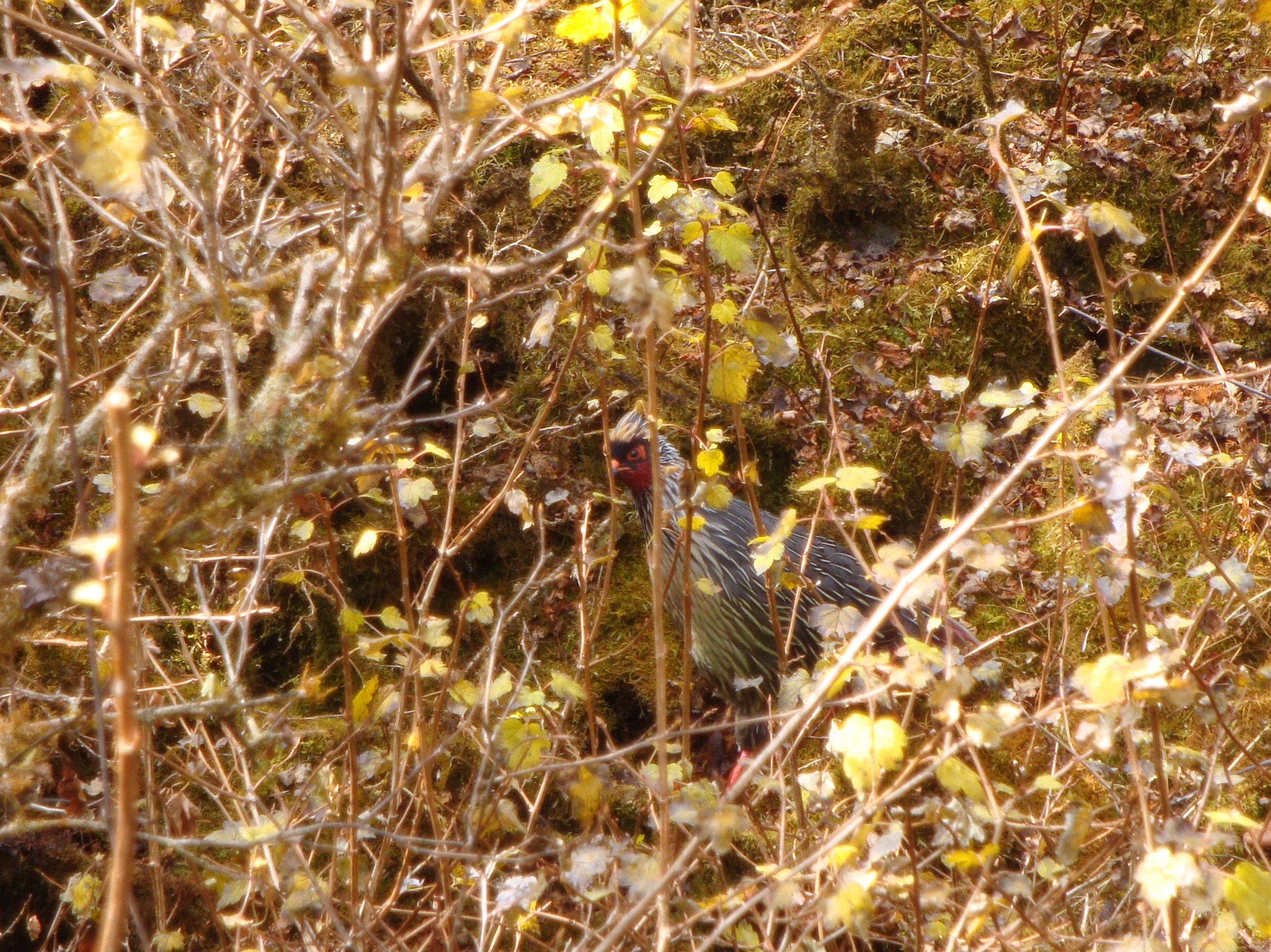 Ithaginis cruentus - Sikkim, India